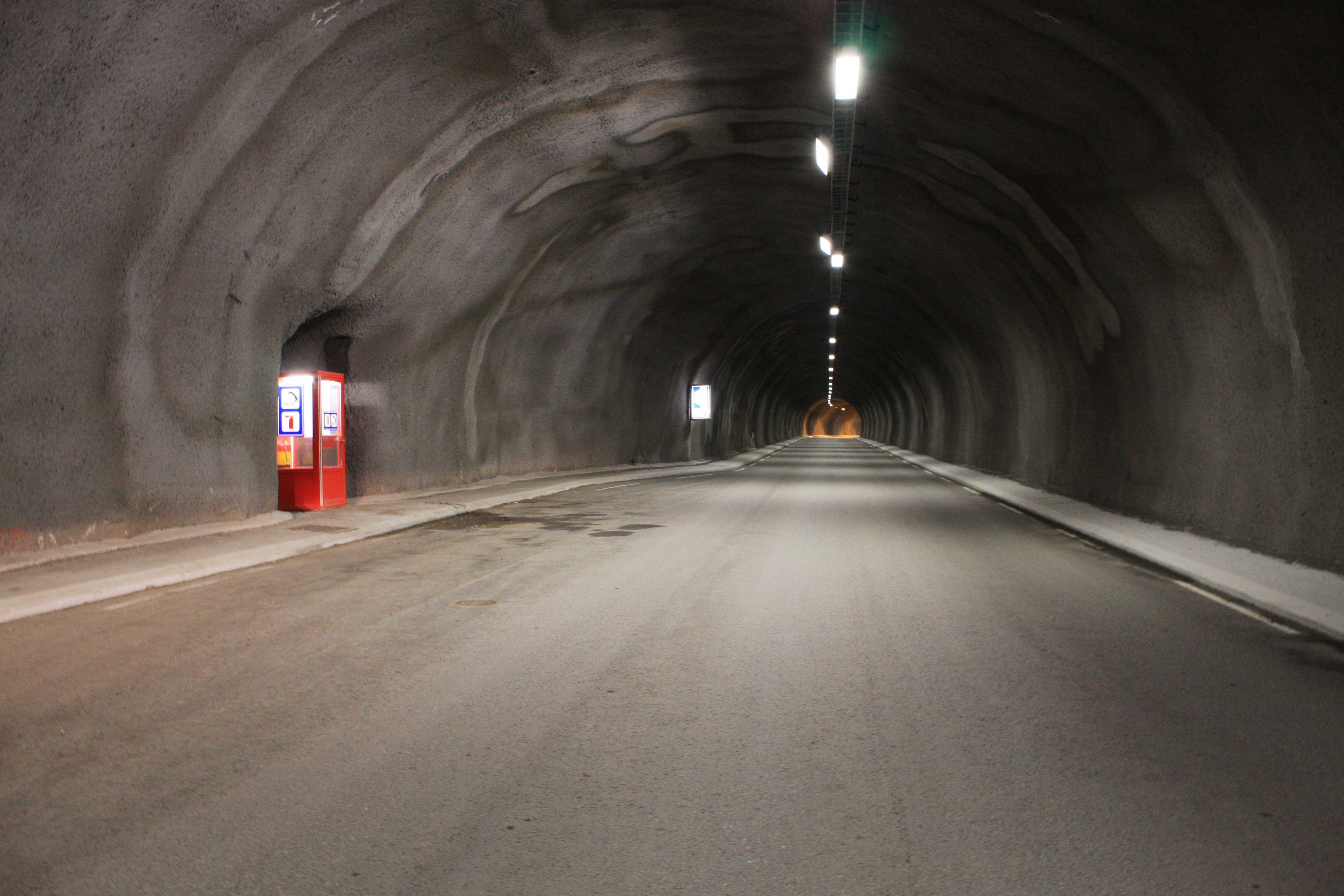 Isbergantunnelen (road tunnel) - Inside